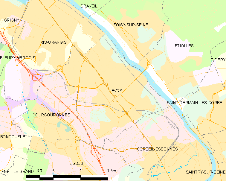 Map of French municipality Évry